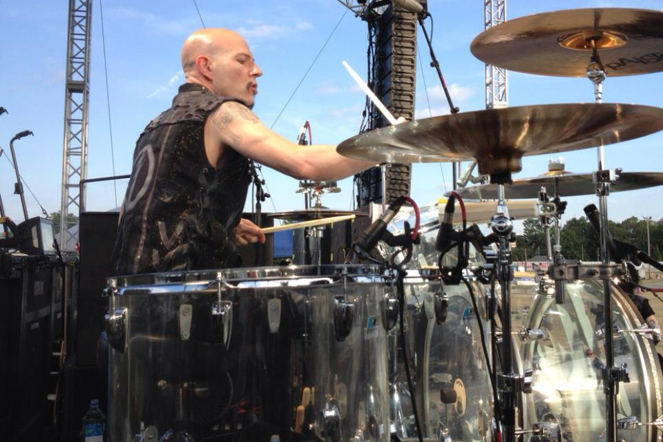 Matt Starr playing drums in Detroit, MI with KISS guitarist Ace Frehley